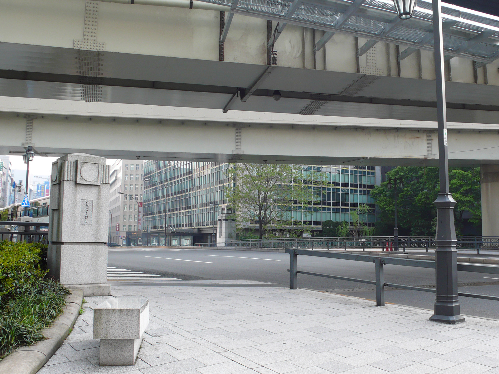 Ikkoku Bridge over Nihonbashi River. Chūō ward, Tokyo, Japan.